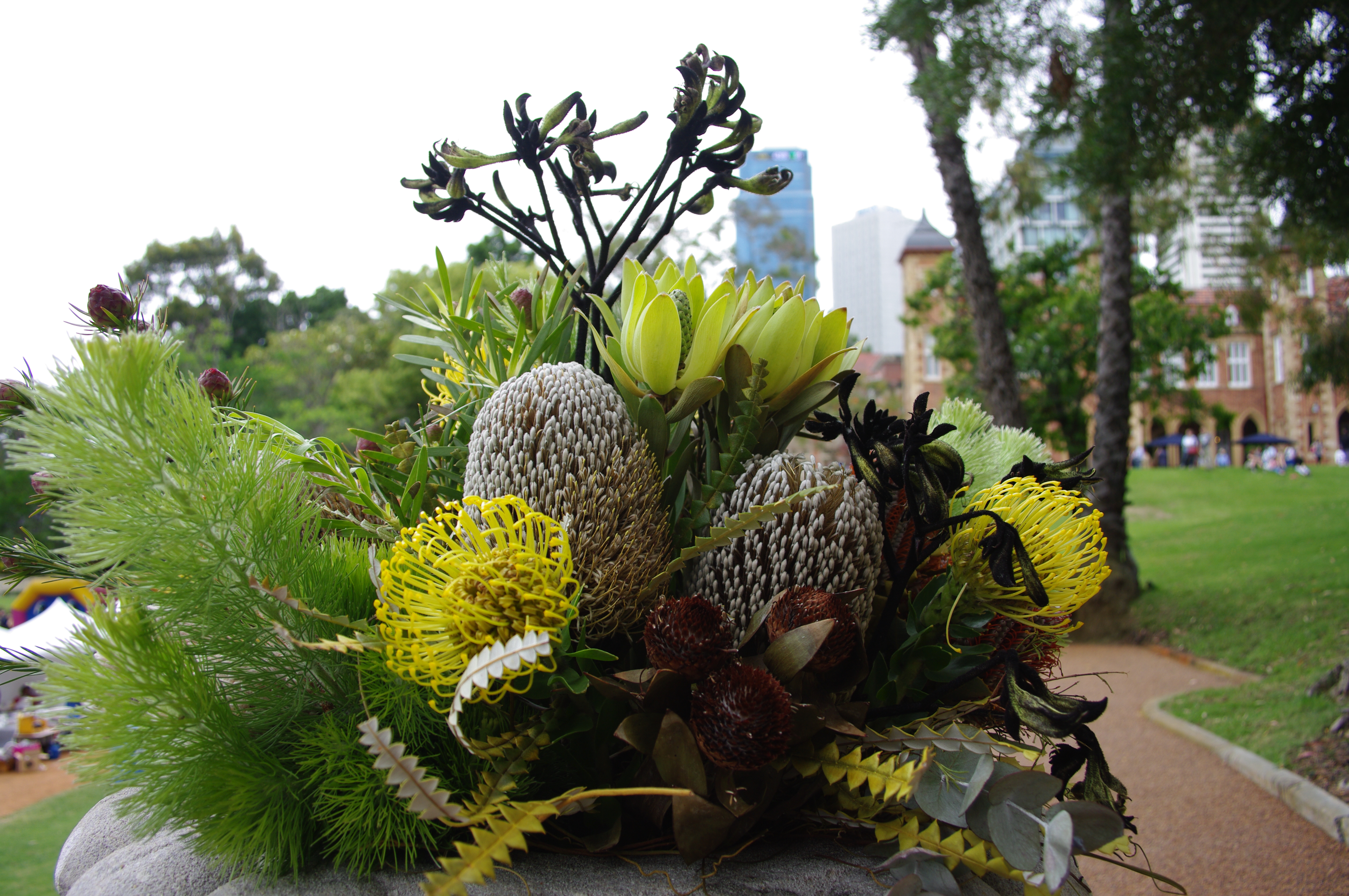 Photographs taken during Heritage Day Perth Western Australia Government House, Western Australia